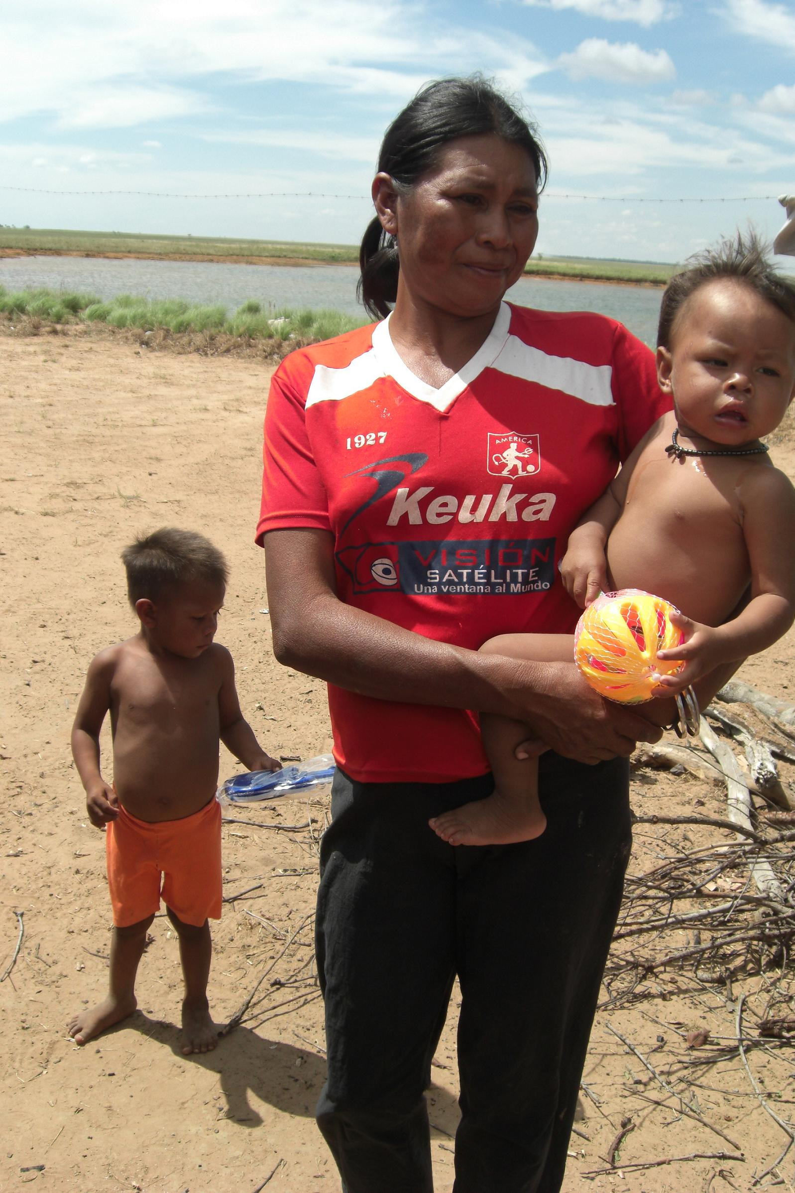 Mujer indígena de Apure con su hijo en los brazos